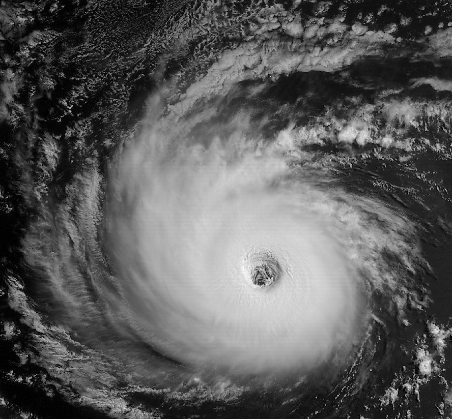 This image of Hurricane Daniel was captured at 1800 UTC on 21 July 2006. At the time, winds were 115 knots in a compact Category 4 storm, just past its maximum of 125 knots.